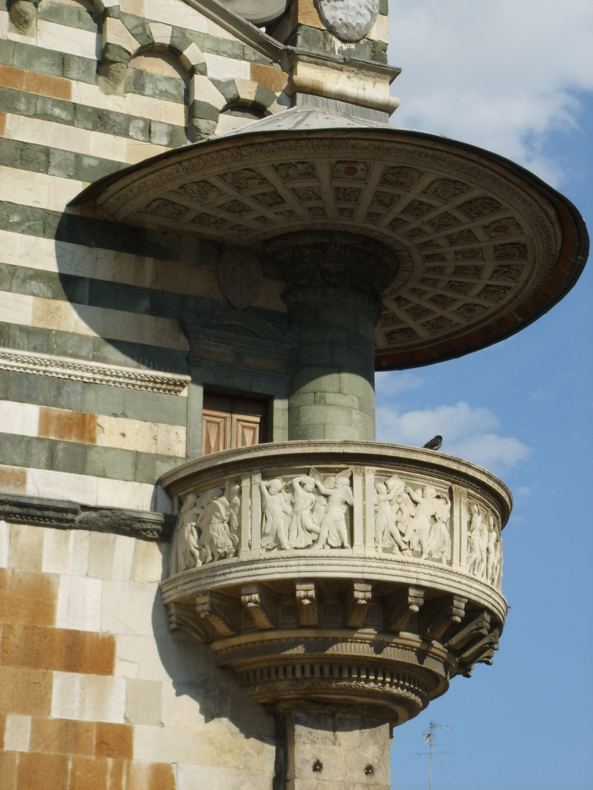 Duomo, pulpit by Donatello and Michelozzo, Prato, Italy